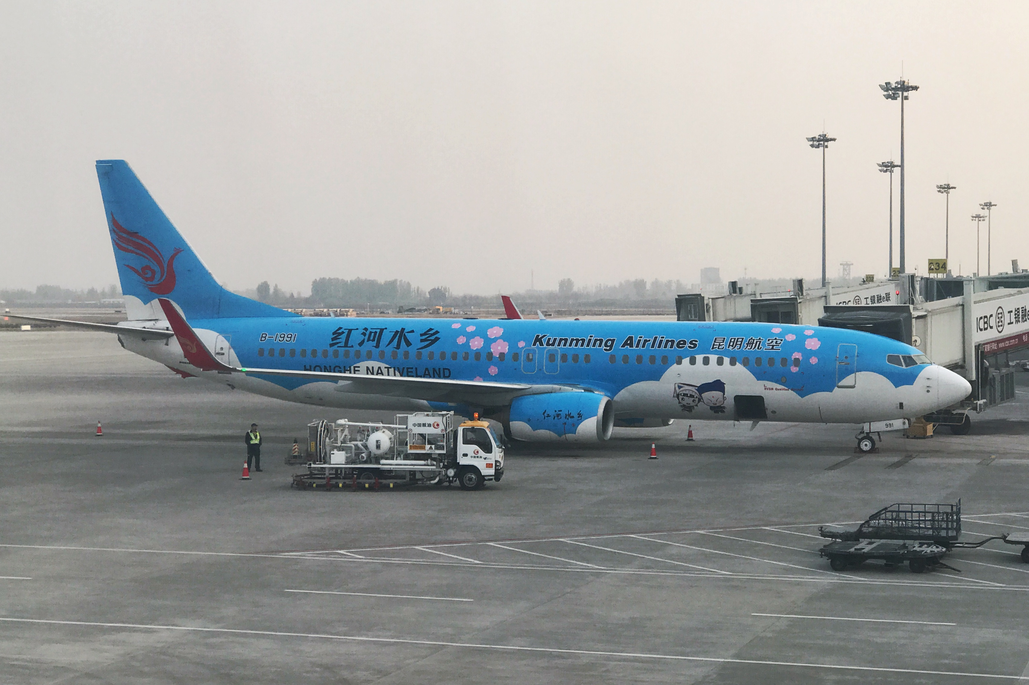 B-1991, bearing the "Honghe Nativeland" special livery, parked at Terminal 2 of CGO. It arrived from Kunming on flight KY8277 and will fly back on flight KY8278.